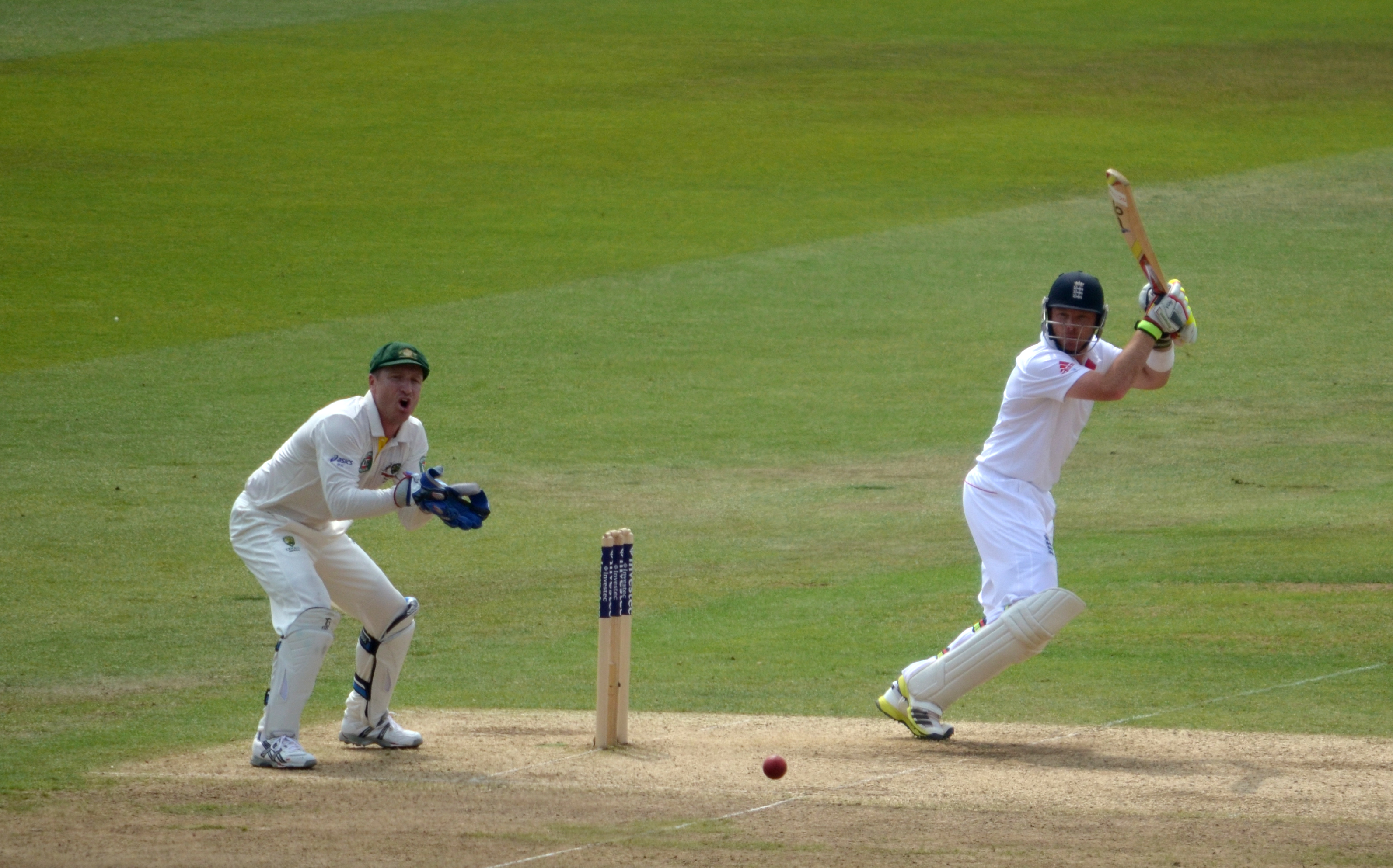 Ian Bell plays a shot on the 3rd day of the 1st Test of the 2013 England v Australia Ashes series at Trent Bridge, Nottingham. Brad Haddin is keeping wicket.